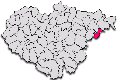 Map Salaj County Romania